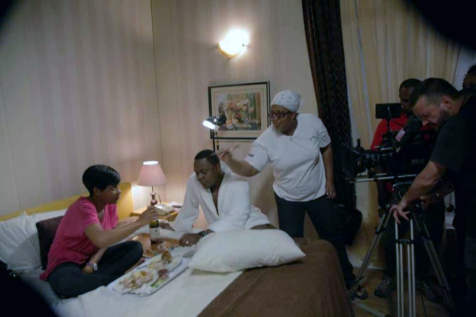 Mildred Okwo, cast and crew on set of The Meeting